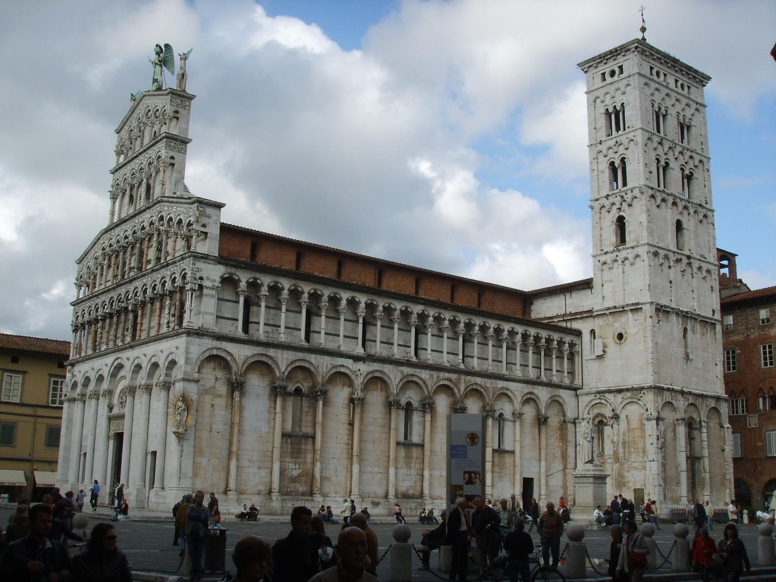 San michele in foro 11